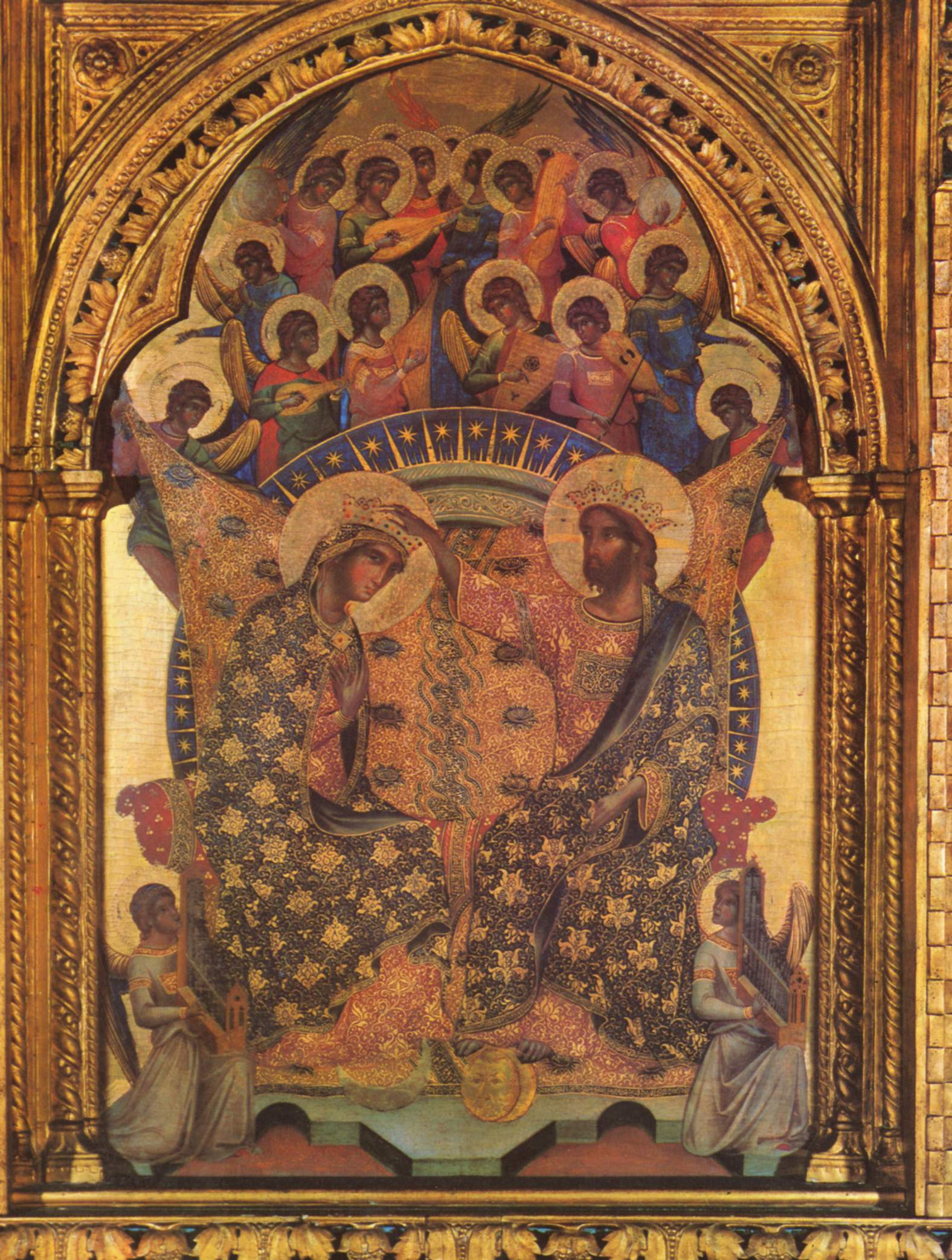 central panel: The Coronation of the Virgin